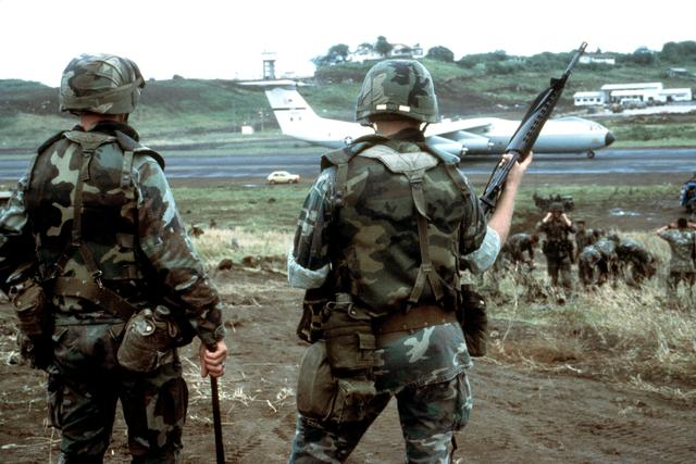 U.S. military personnel, armed with M16A1 rifles, observe a C-141 Starlifter aircraft upon its arrival to evacuate American students during Operation URGENT FURY. Date: 3 Nov 1983.